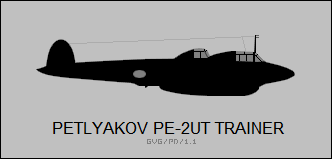 Side-view silhouette of the Petlyakov Pe-2UT trainer